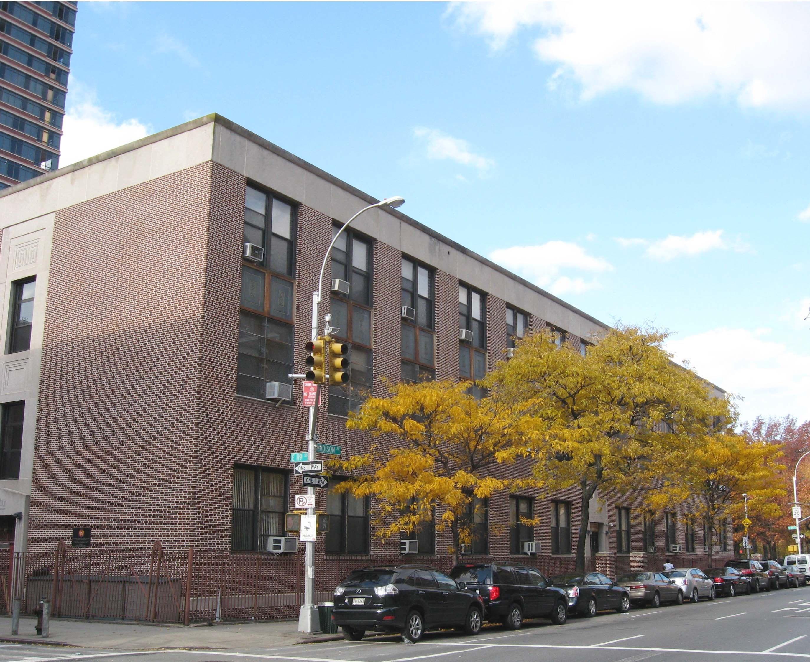 Looking north across 119th Street and Madison Avenue at James Fenimore Cooper School in Spanish Harlem on a sunny afternoon. ZIP 10026.